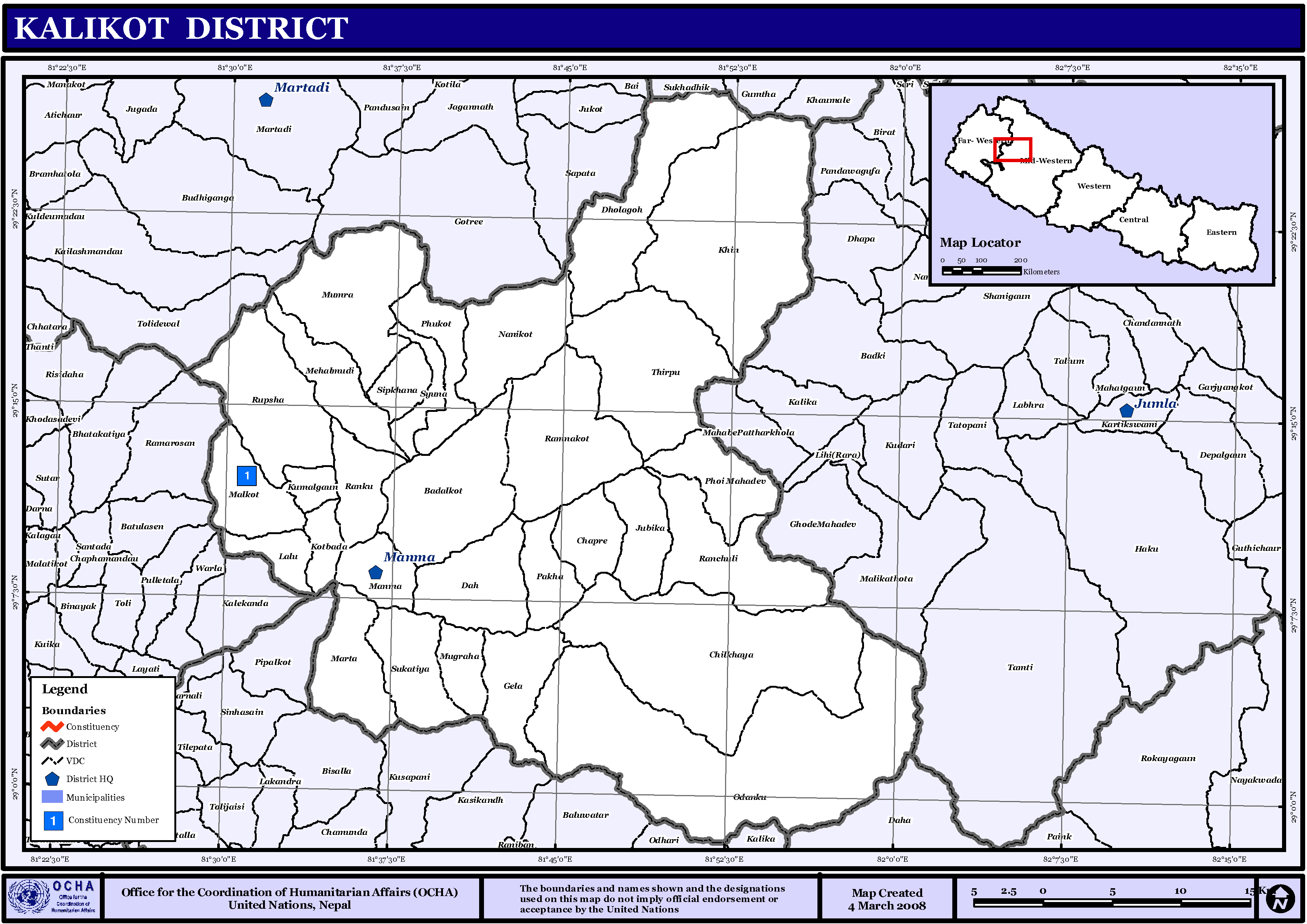 Map displaying Village Development Committees in Kalikot District, Nepal